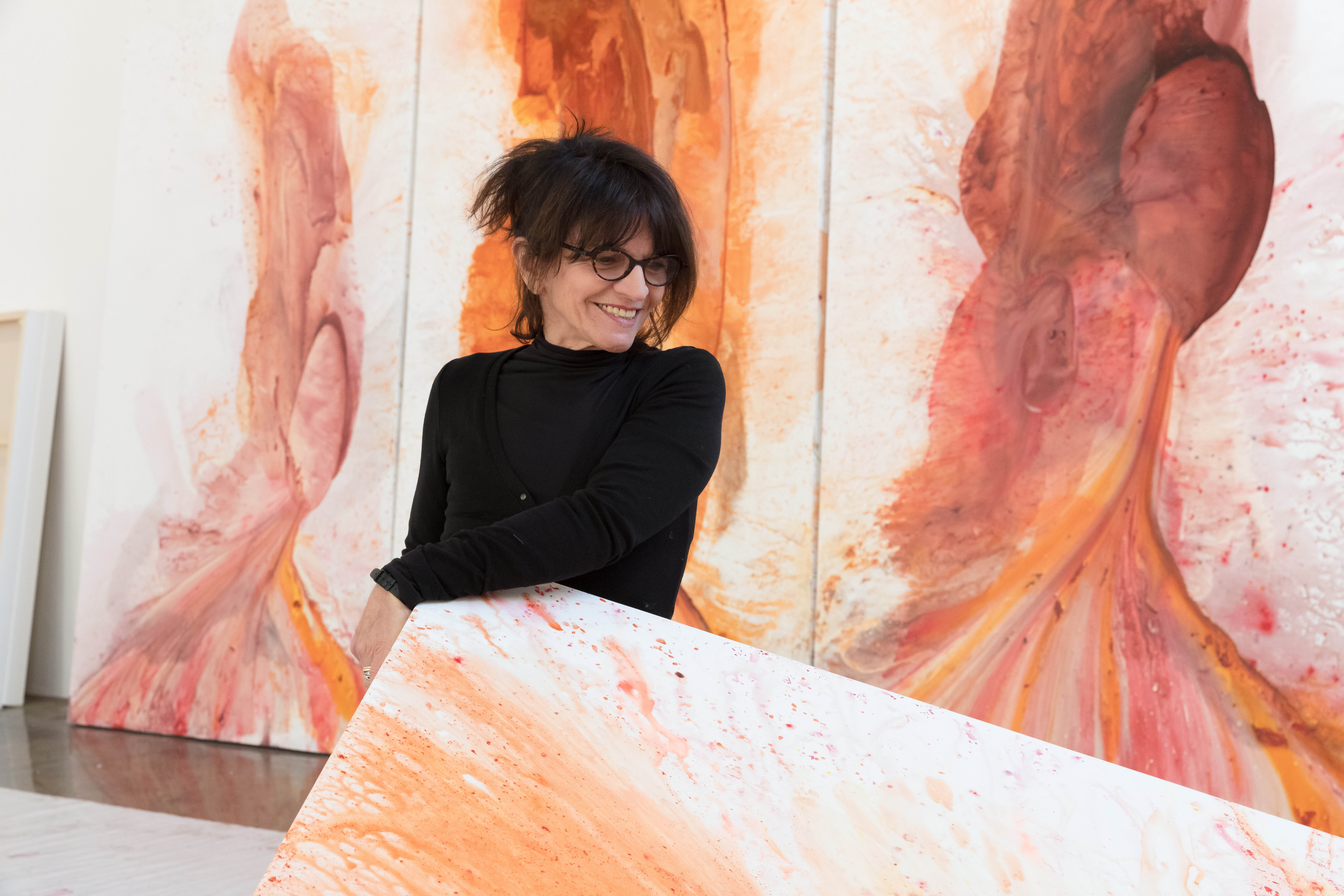 Siopis with her large scale paintings at Maitland Institute, 2017